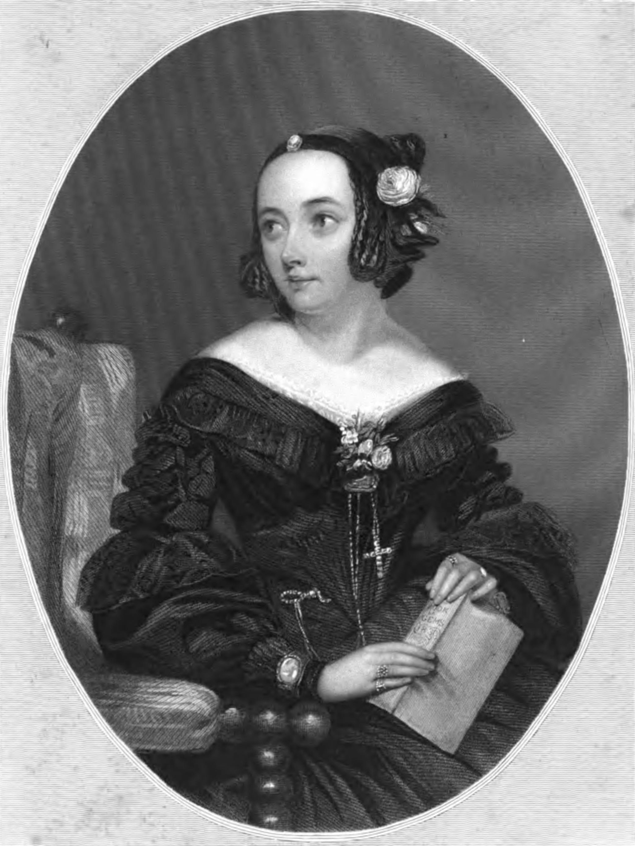 Image of Anna Maria Hall